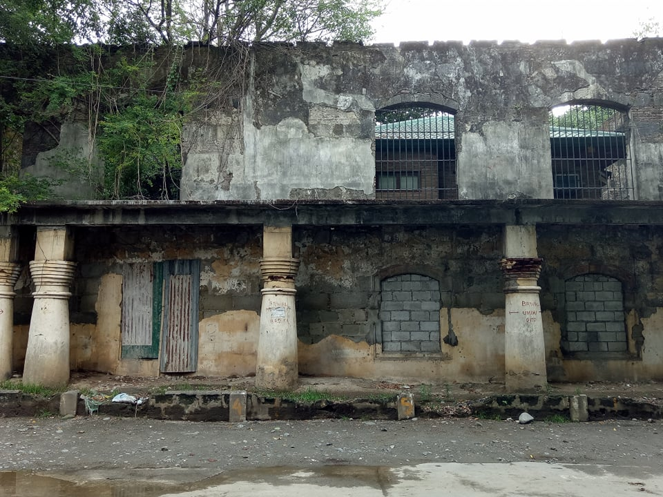 The ruins of convent and school building of the St. Michael the archangel parish church became the Intramuros of Tarlac. It is also known as The old site of Camiling. where visitors goes to search for historical records of the province and meditate like a true Christian. The site contains the Dominican church, its convent and school ruins of Camiling Catholic School where a large portion of it was converted into a Parish garden where one could see relics of religious, catholic images and different titles of Mama Mary. Inside the place has a wide lawn where different flowers bloom.